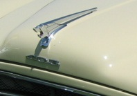 This is a retouched picture, which means that it has been digitally altered from its original version. Modifications: focus on the lion Mascot. The original can be viewed here: Peugeot_403_25.jpg